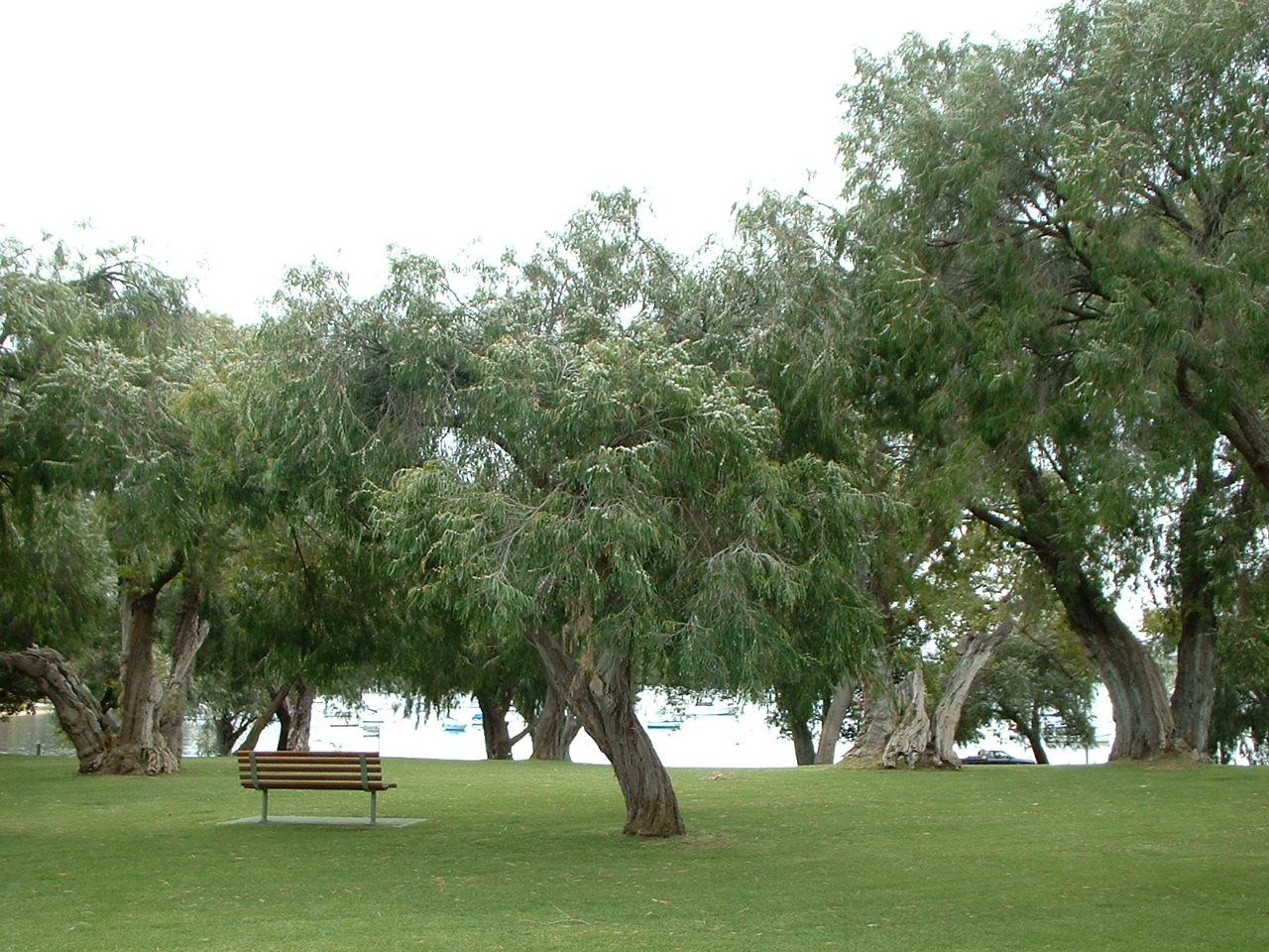 Peppermint trees (Agonis flexuosa) overlooking Freshwater Bay, Swan River